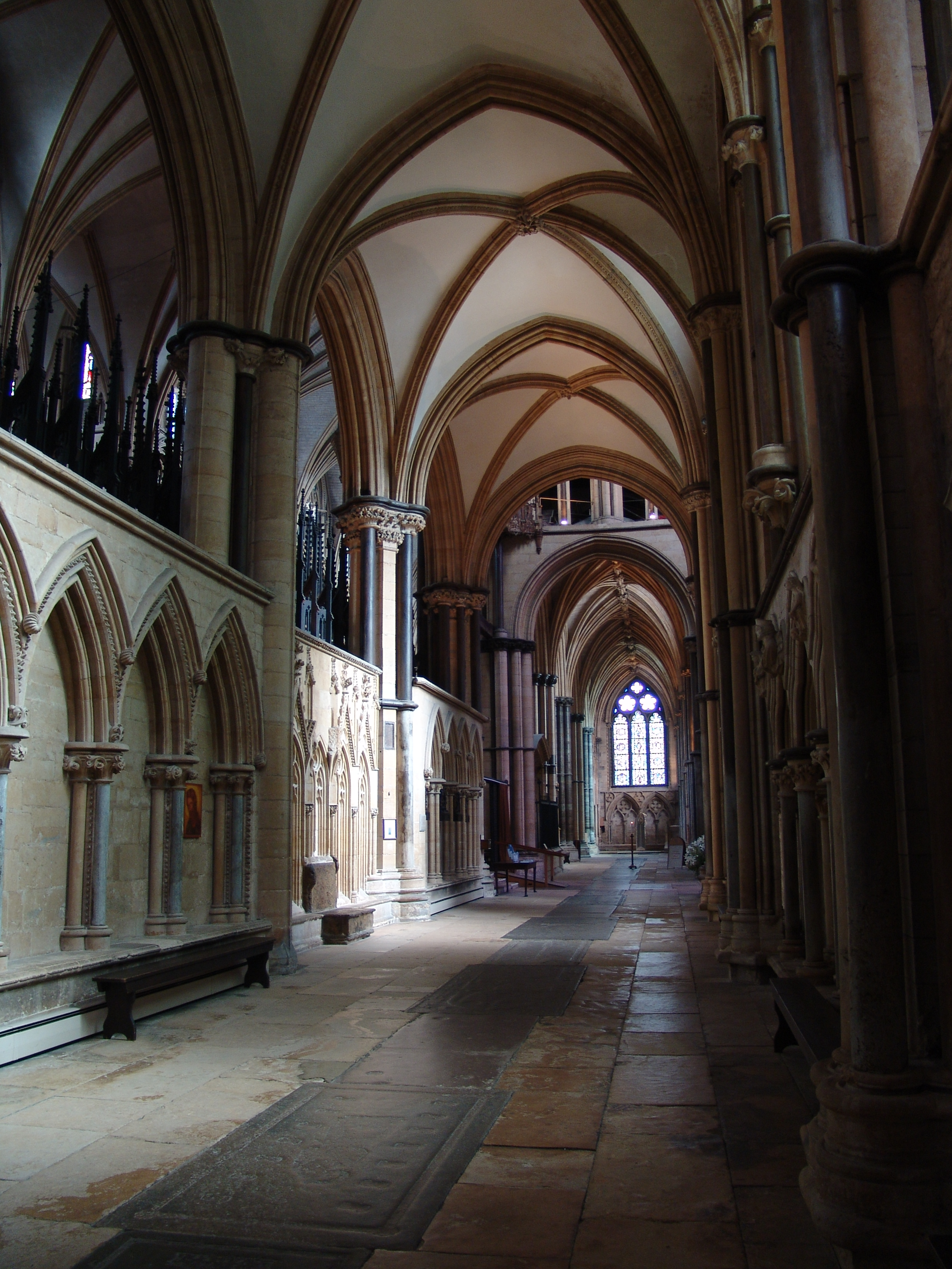 Lincoln Cathedral